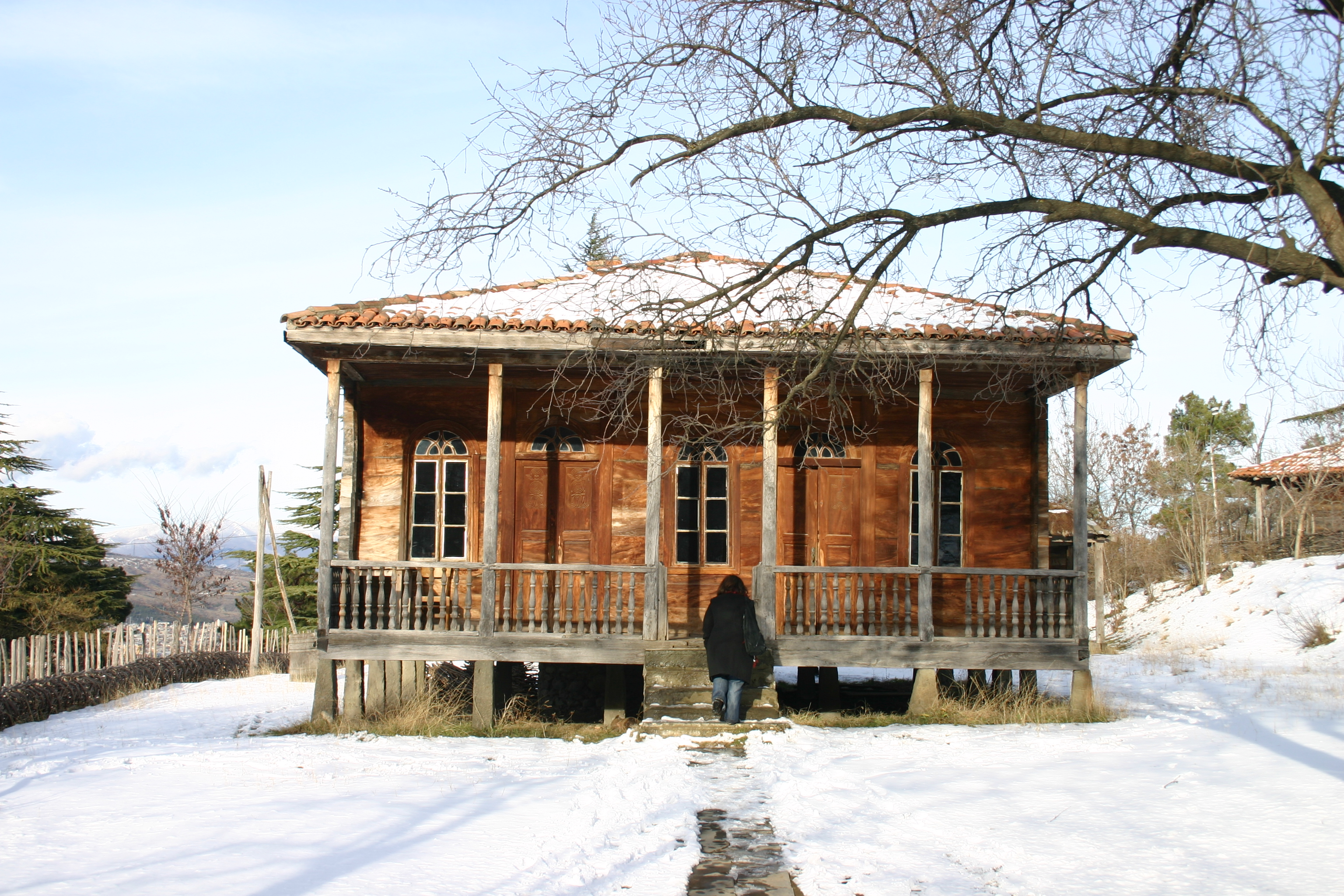 Ethnographic museum, Tbilisi in Jan 2013 after a little snow